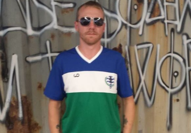 Photo of the 2nd Cascadia official soccer team kit prototype